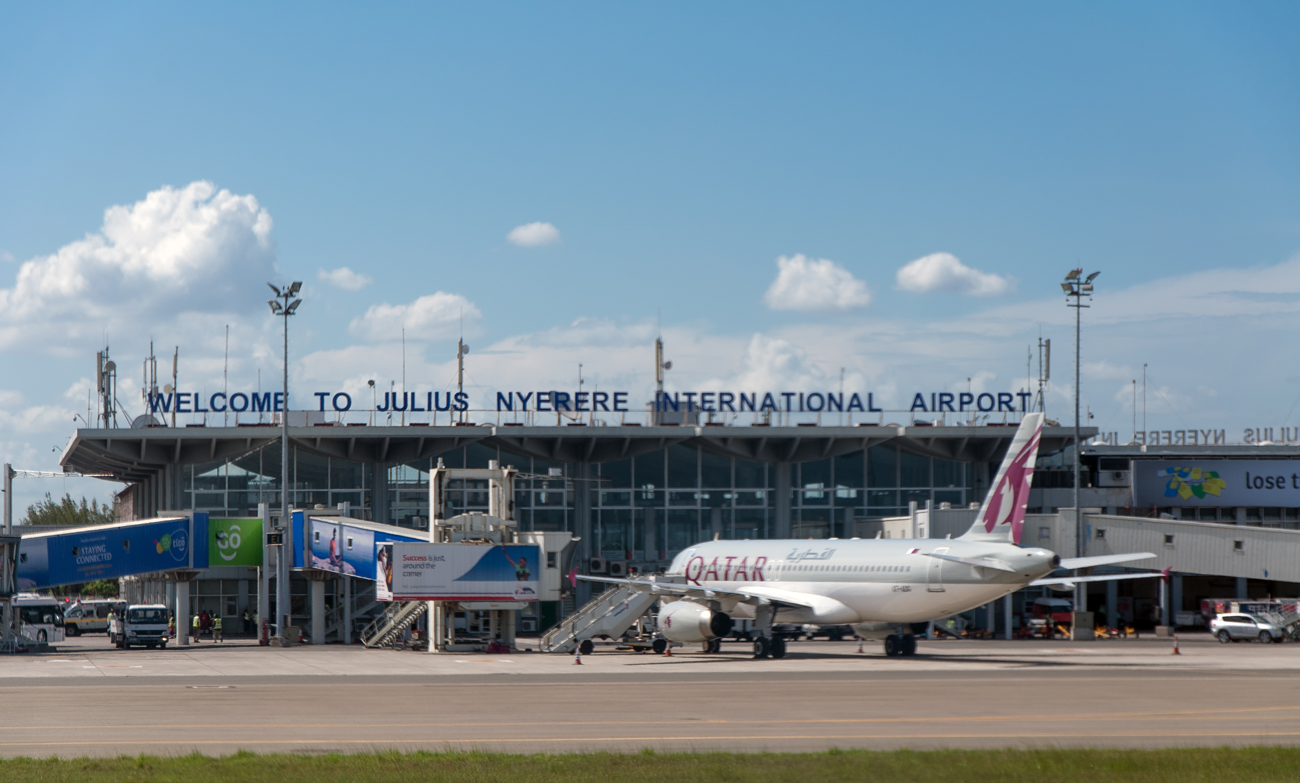 Airbus A320 of Qatar Airways (A7-ADG) at Julius Nyerere International Airport in Dar es Salaam